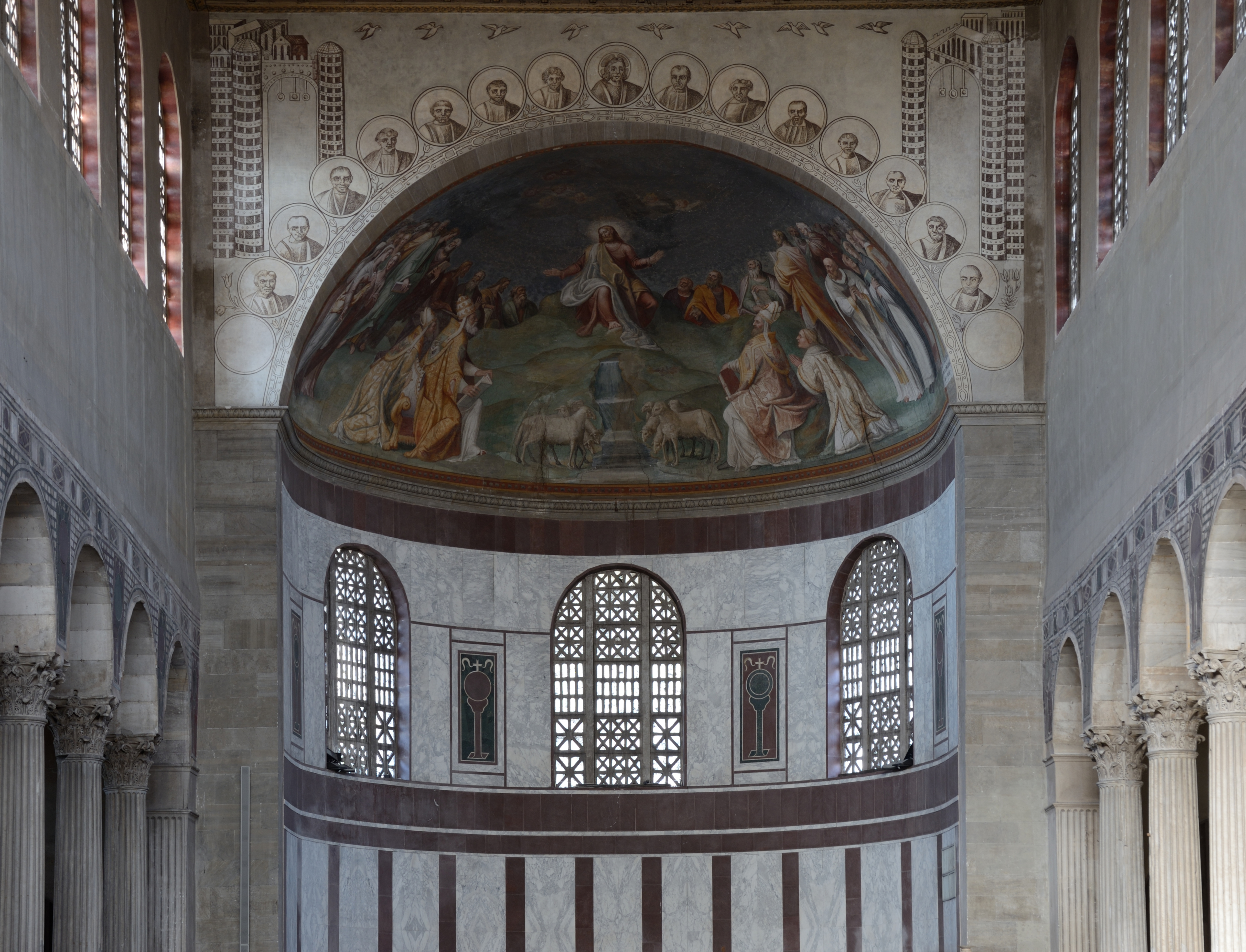 Santa Sabina (Rome) - Apse